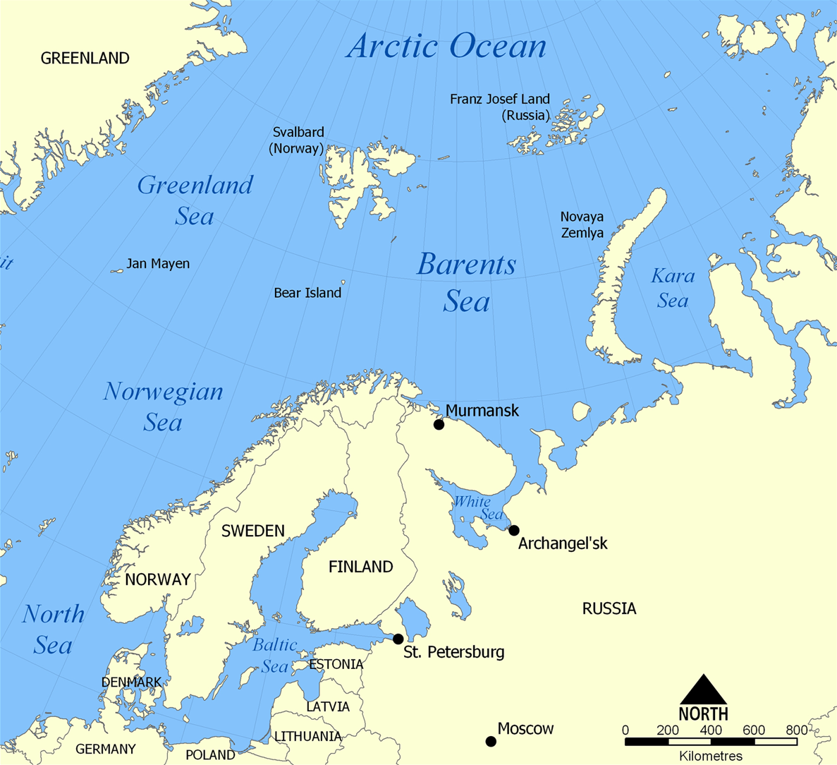 The location of the Barents Sea north of Russia and Norway, and the surrounding seas and islands. Also includes political borders with their corresponding nation-states listed.